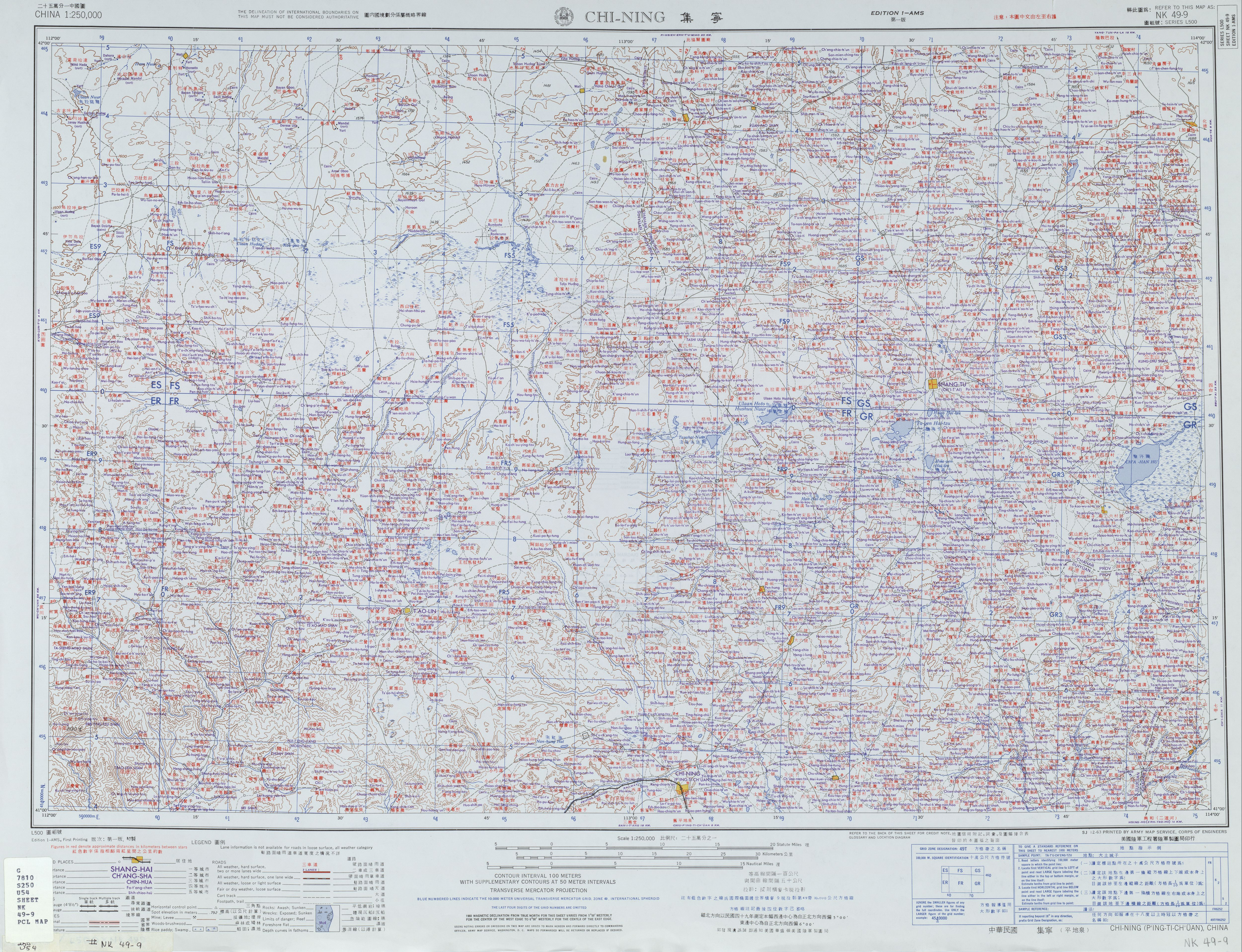 China AMS Topographic Maps